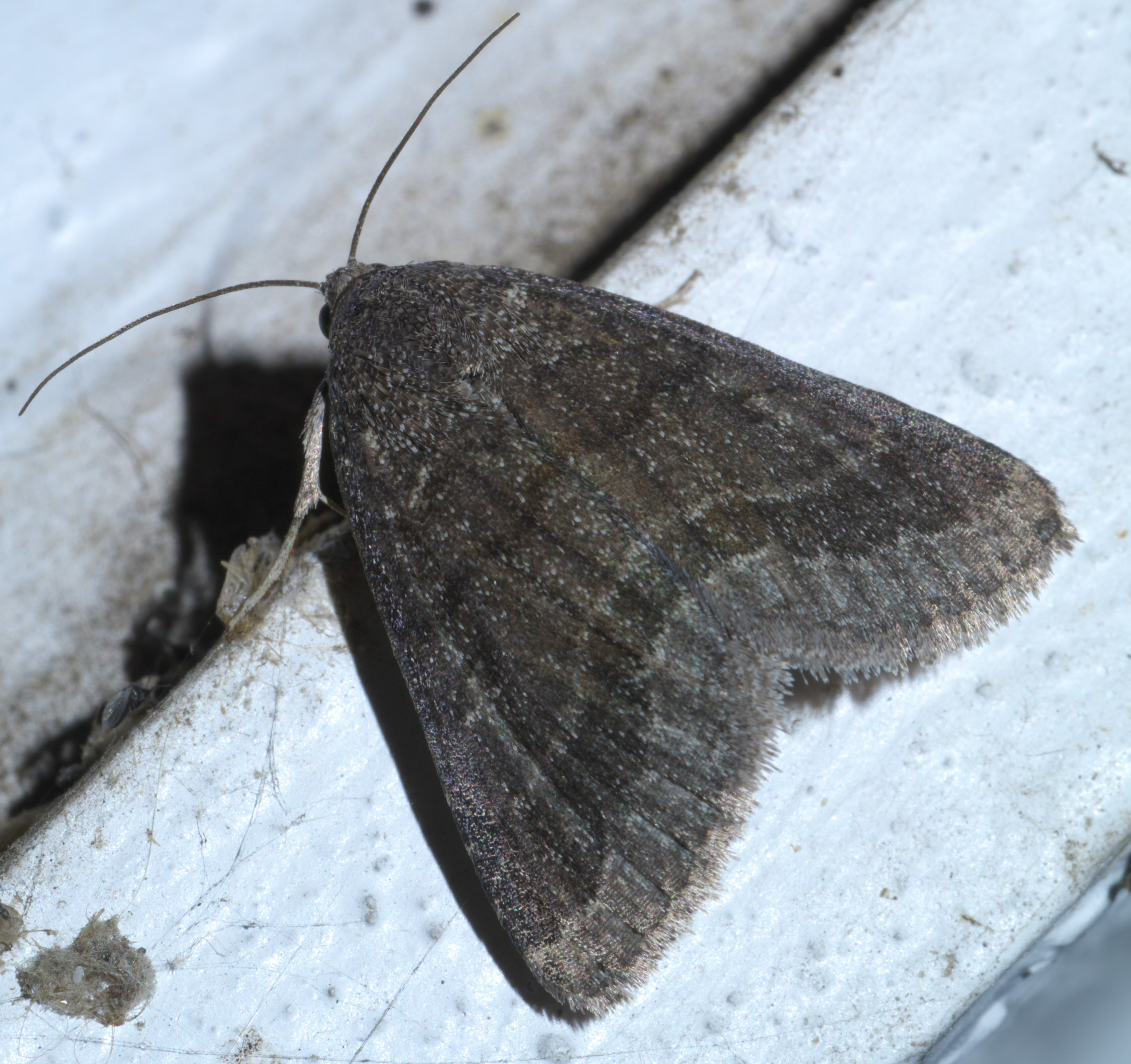 Matigramma pulverilinea, Dusty Lined Matigramma - Hodges #8679, ID Confidence: 88